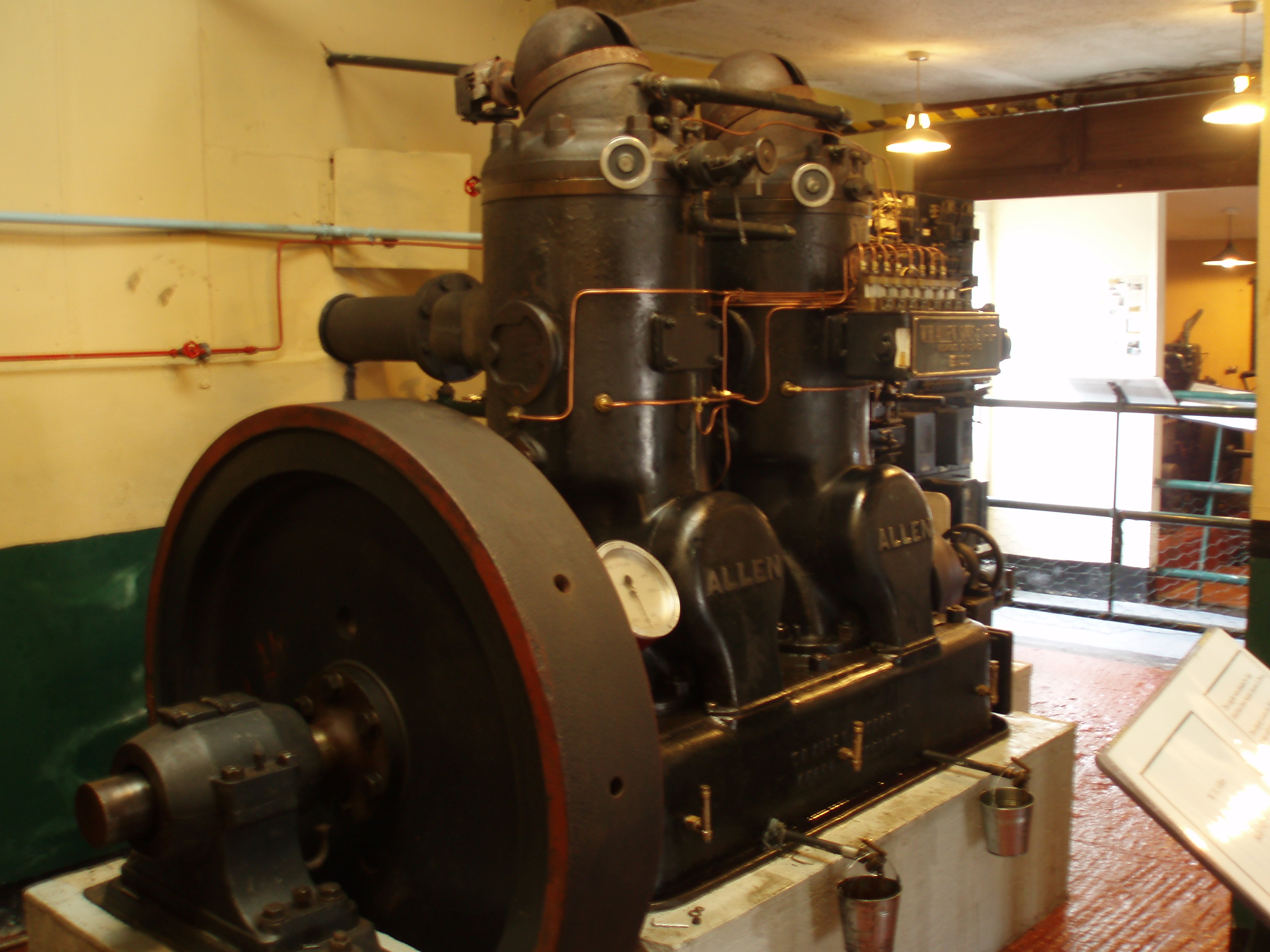 A 2-cylinder 70BHP hot-bulb engine built by W.H. Allen & Sons, 1923. The engine is on display at the Internal Fire Museum of Power, Tangygroes, Wales, UK.